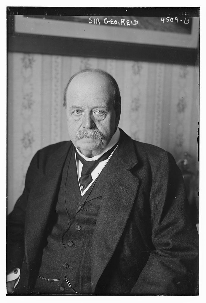 Bain News Service,, publisher. Sir Geo. Reid [between ca. 1915 and ca. 1920] 1 negative : glass ; 5 x 7 in. or smaller. Notes: Title from unverified data provided by the Bain News Service on the negatives or caption cards. Forms part of: George Grantham Bain Collection (Library of Congress). Format: Glass negatives. Repository: Library of Congress, Prints and Photographs Division, Washington, D.C. 20540 USA, General information about the Bain Collection is available at Higher resolution image is available (Persistent URL): Call Number: LC-B2- 4509-13